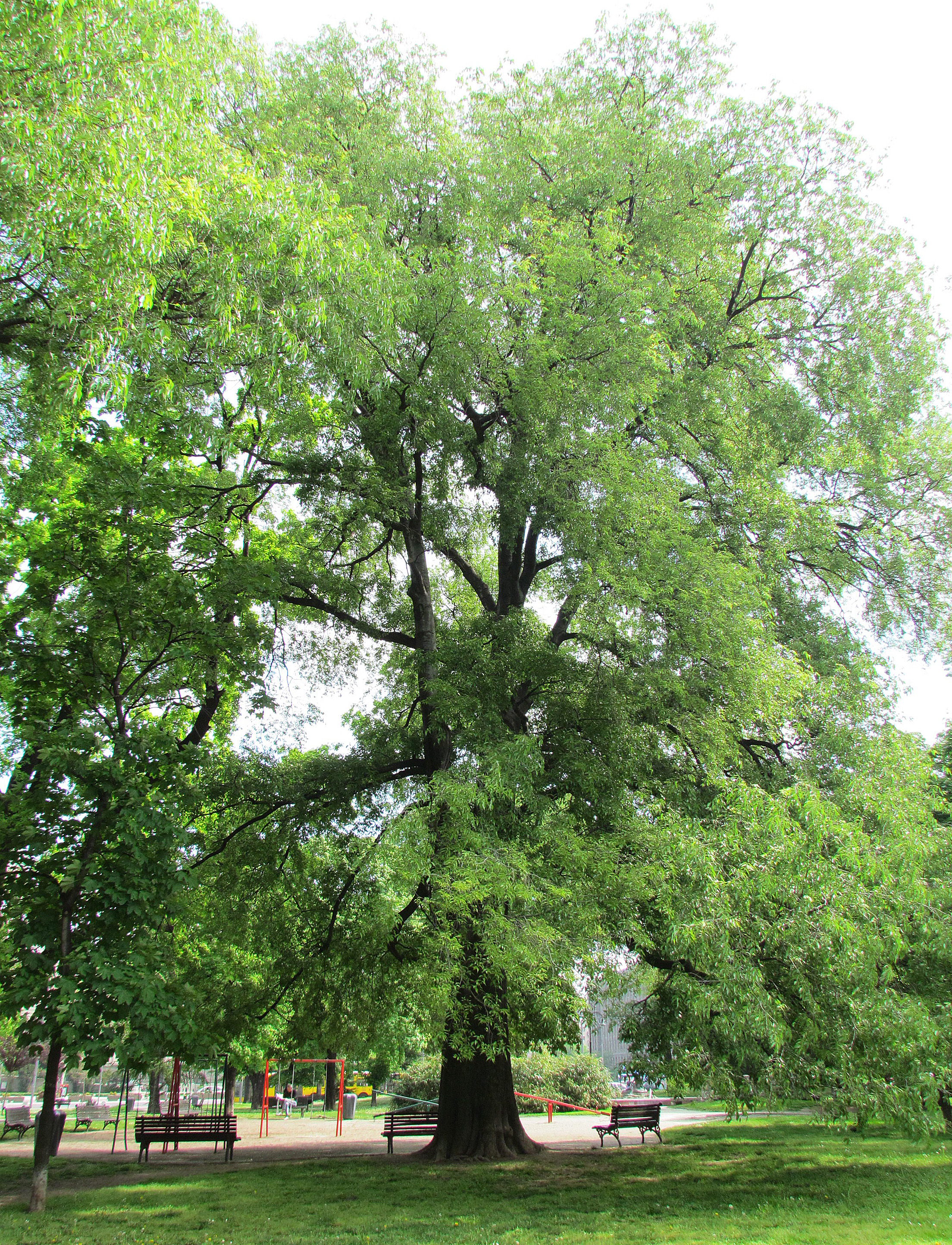 Celtis australis in Pionirski park, Belgrade, Serbia